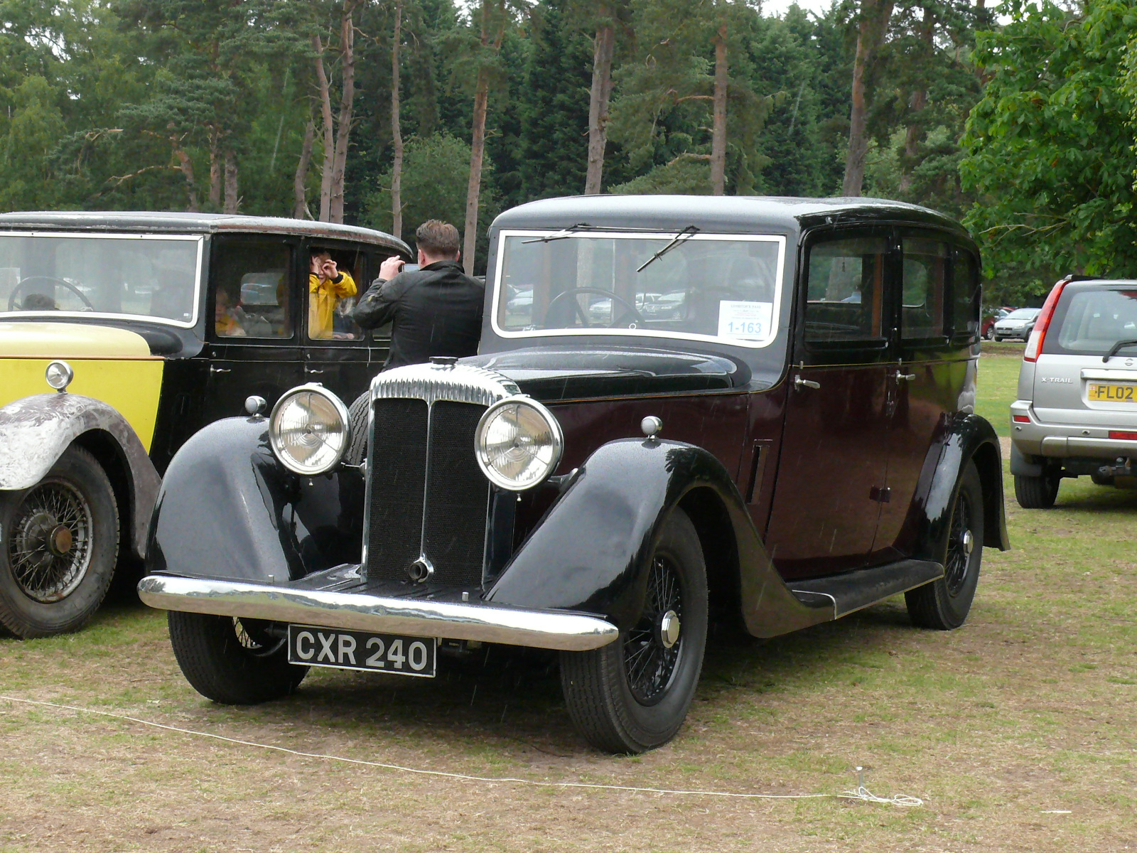 Daimler 32hp Straight Eight 1936 [CXR 240] Daimler & Lanchester Owners Club, International Rally, Queen's Birthday weekend, Sandringham, Norfolk Sunday 12 June 2011 (DVLA) 4624cc, reg 12 June 1936